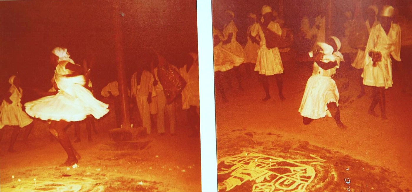 Voodoo scenes from Pt-de-Prince